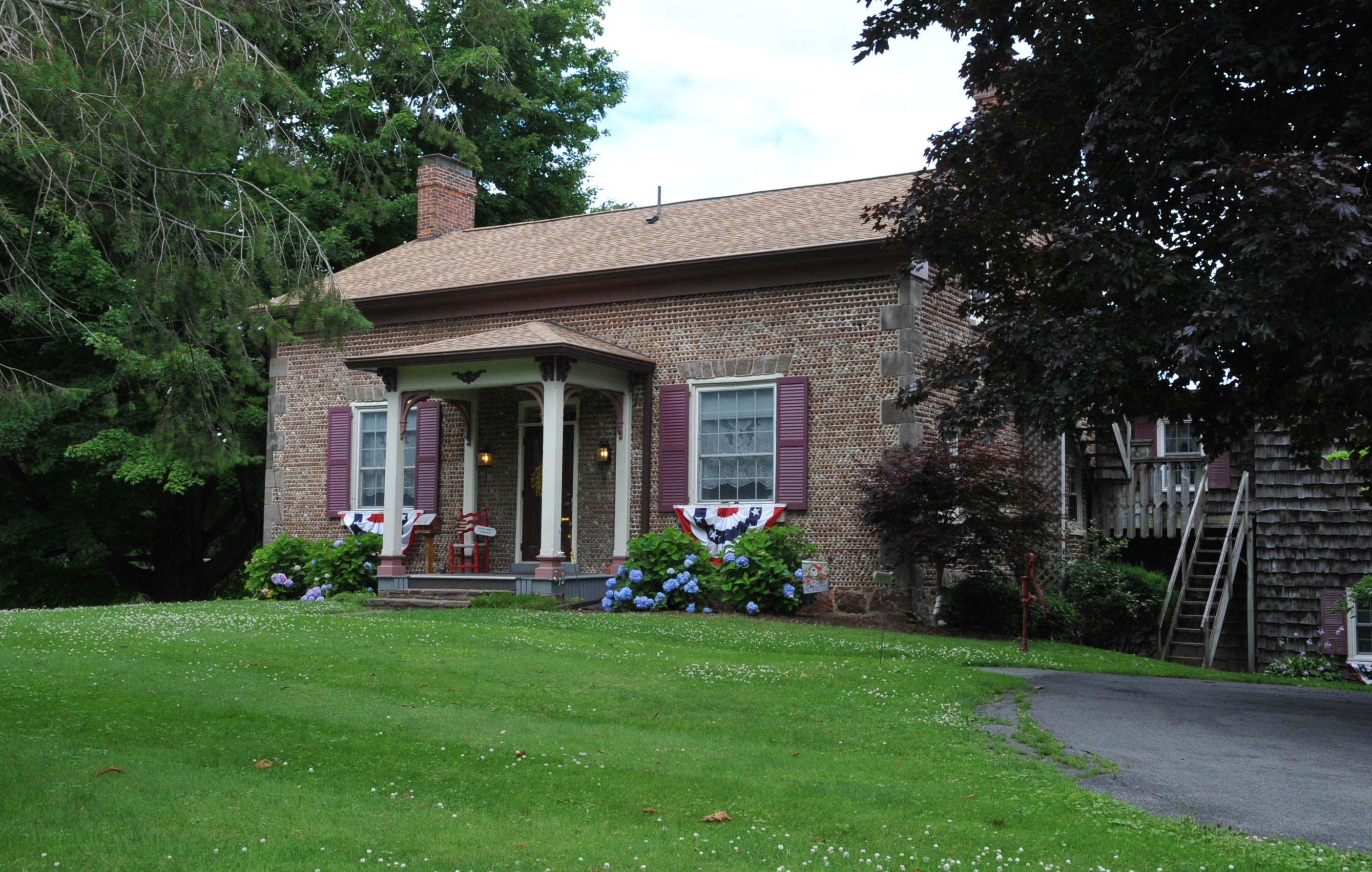 MAIN BLOCK BUILT IN 1845-1846. IT IS NOW A BED AND BREAKFAST